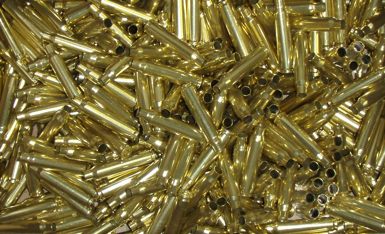 Ammunition Brass or Cases for .223 Remington Cartridge (Winchester brand) for handloading